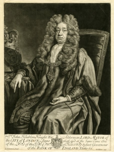 Sir John Houblon Knight the Alderman, LORD MAYOR of the CITY of LONDON Anno 1696 and at the Same Time One of the Lords of the High Court of Admiralty & the first Governour of the BANK OF ENGLAND. Etatis 68.